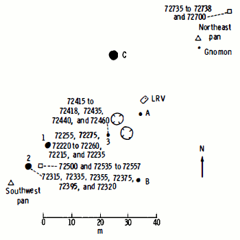 Planimetric map of Station 2 of Apollo 17. Figure 6-105 of Apollo 17 Preliminary Science Report.